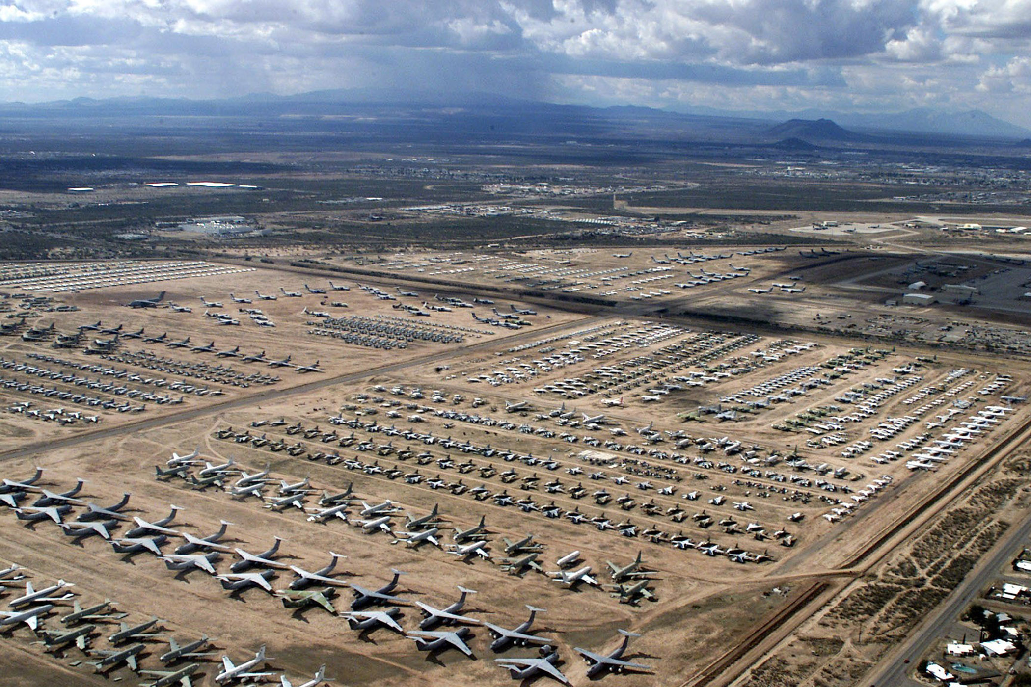 Davis-Monthan Air Force Base, Tucson, Ariz. (Feb.4, 2004) – An aerial image of the Aerospace Maintenance and Regeneration Center (AMARC) located on the Davis-Monthan Air Force Base in Tucson, Ariz. AMARC is responsible for the storage and maintaining of aircraft for future redeployment, parts, or proper disposal following retirement by the military. U.S. Navy photo by Photographer’s Mate 3rd Class Shannon R. Smith. (RELEASED)